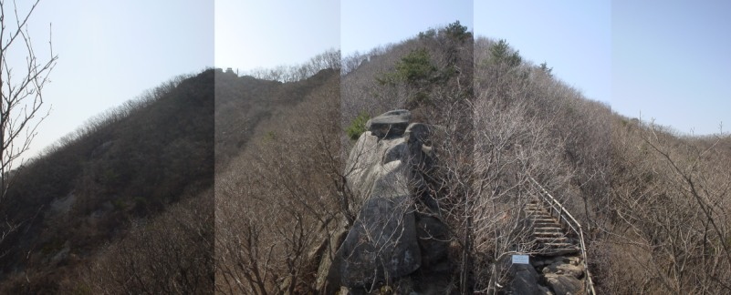 Mt,Mani,Ganghwa county,INCHEON,KOREA